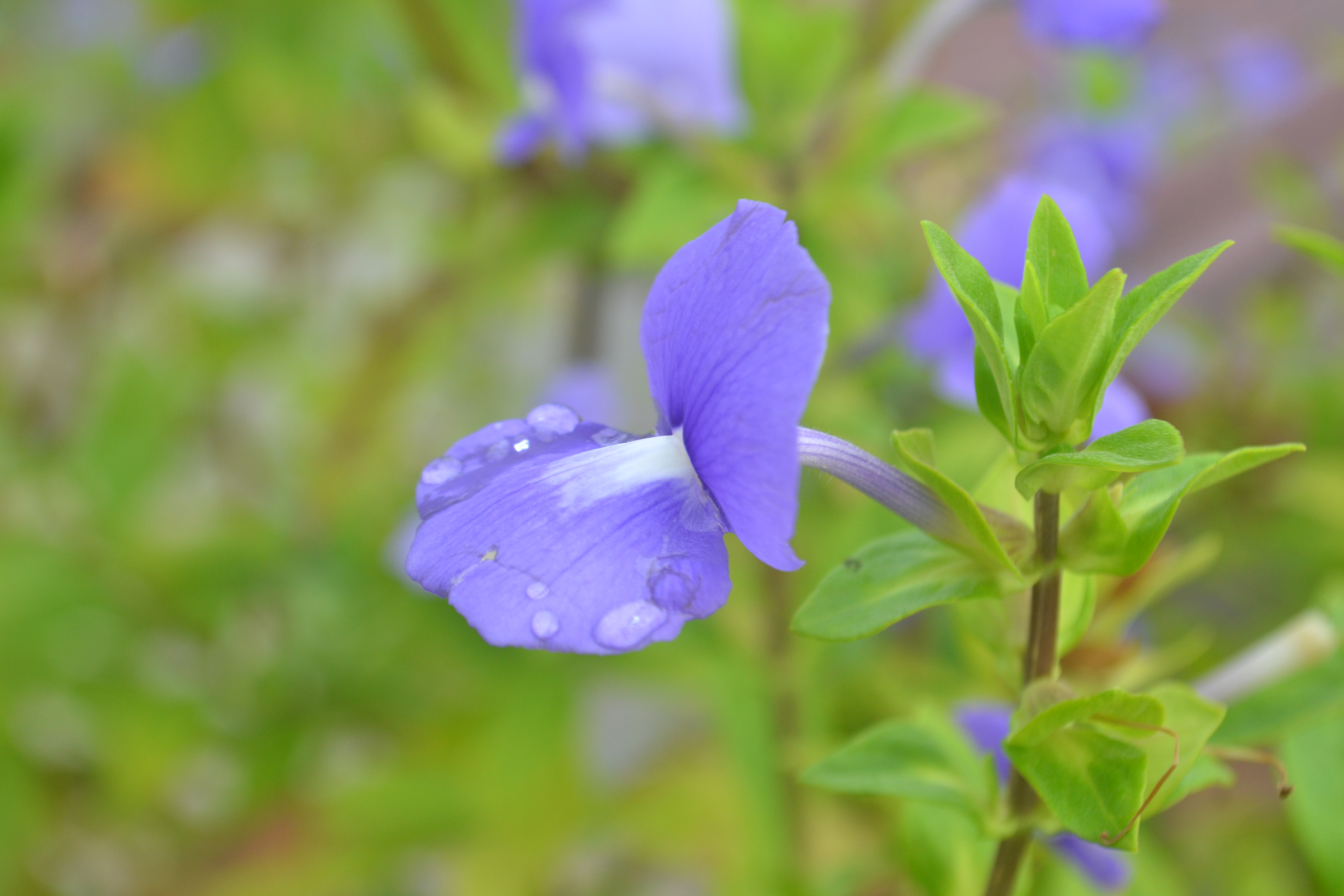 Locally known as Neelakurinji